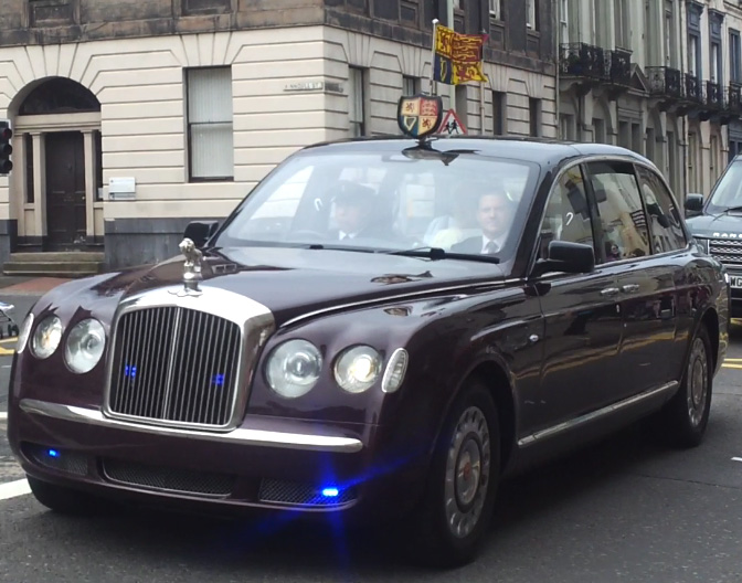 Photograph taken in Perth, Scotland on Queens visit 2012. Photo displays two things useful for wikipedia. It displays the lion ornament on bonnet and displays lights. This gives evidence to support article